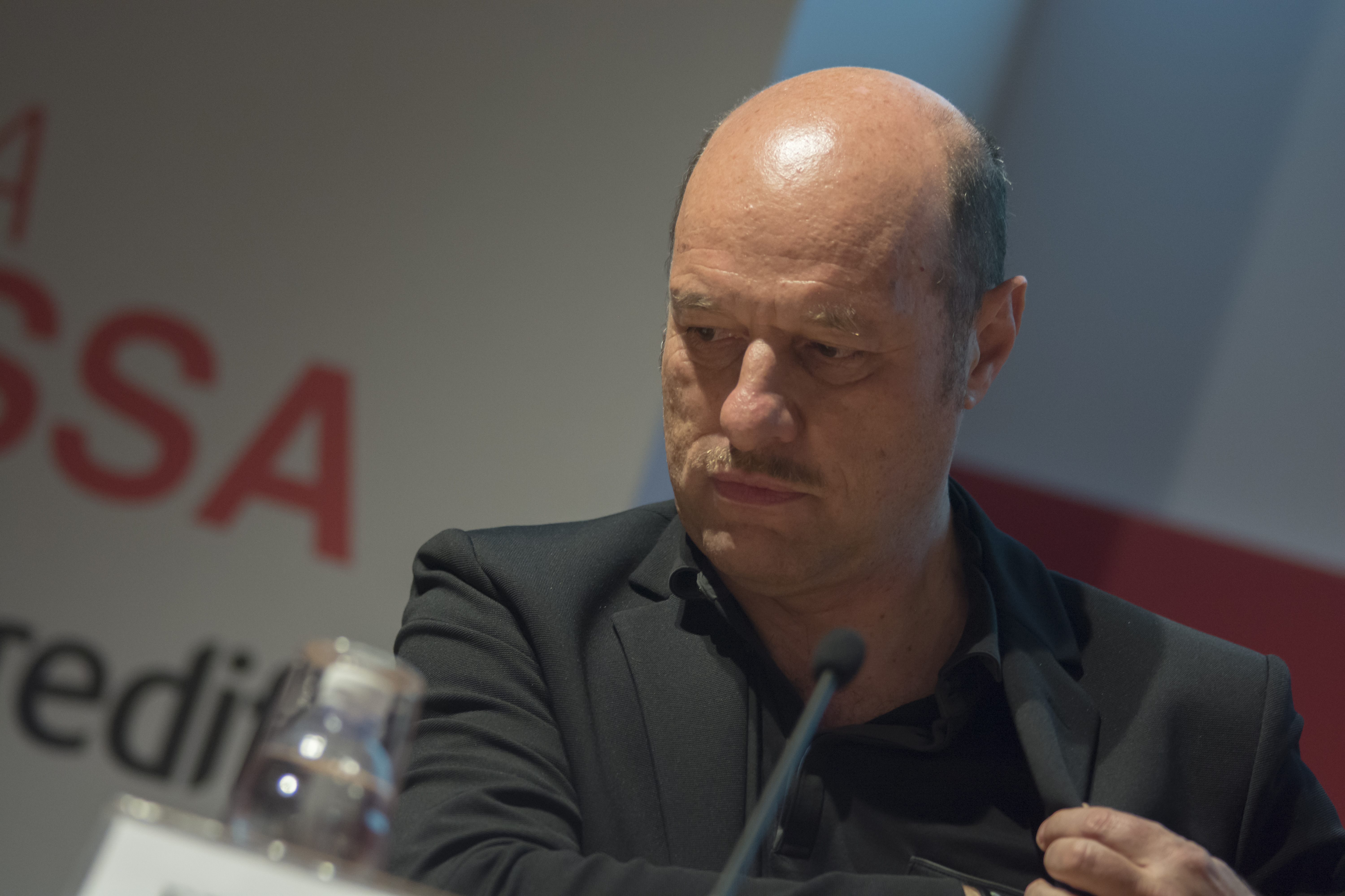 Eraldo Affinati at XXIX Salone Internazionale del Libro 2016.